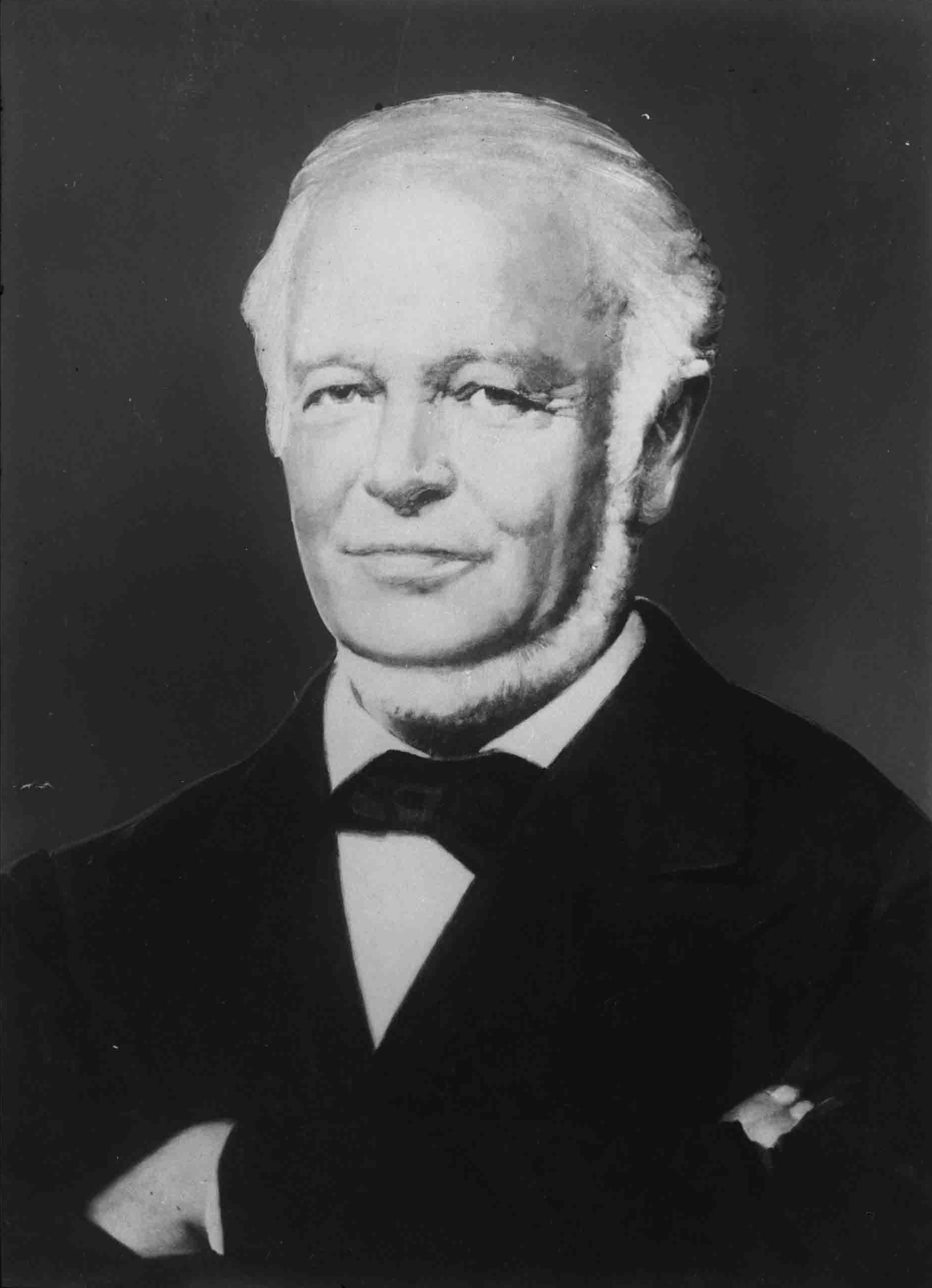 Carl Woermann (1813-1880), German merchant and shipping company owner